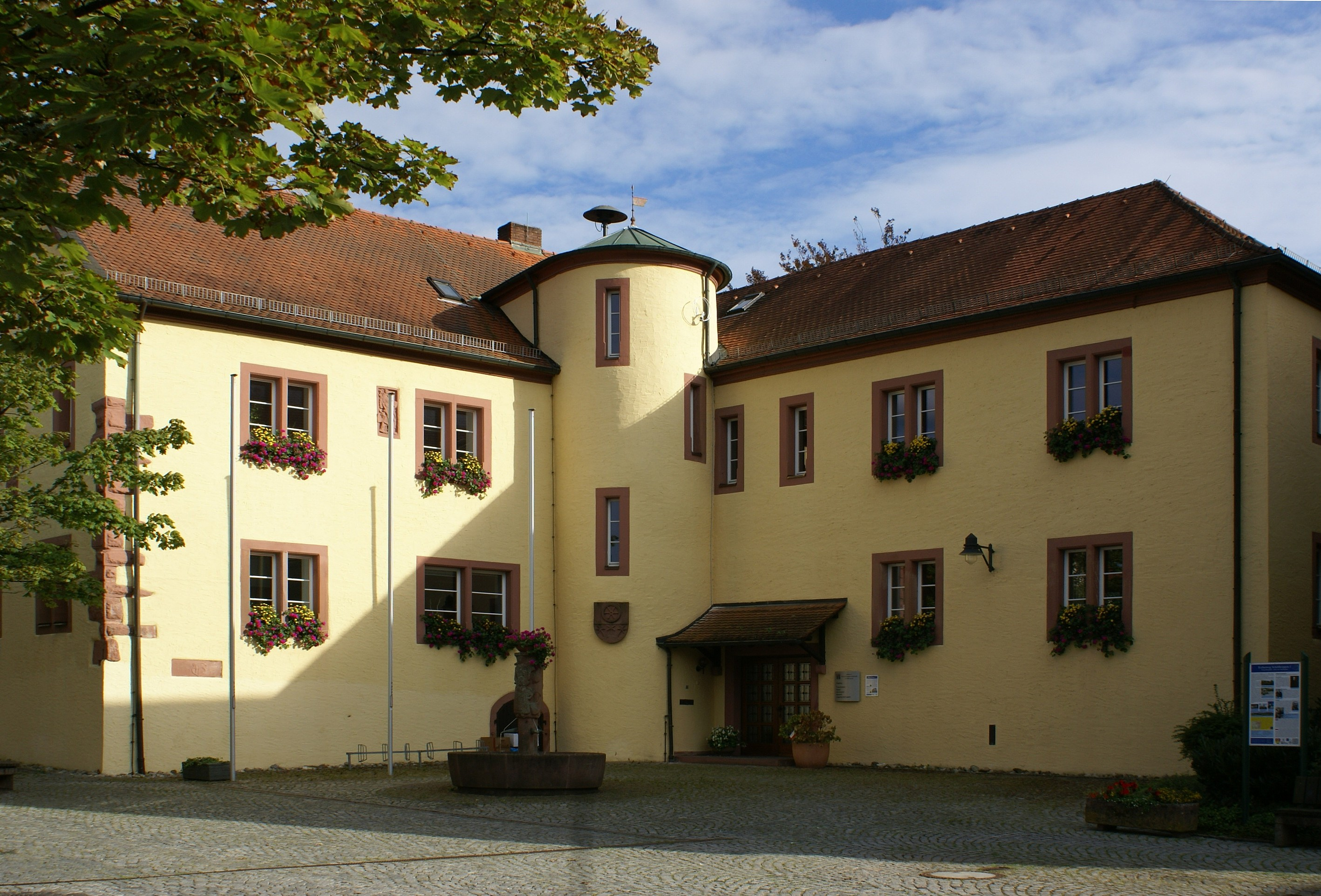 The attractive town hall of the community Markt Schöllkrippen